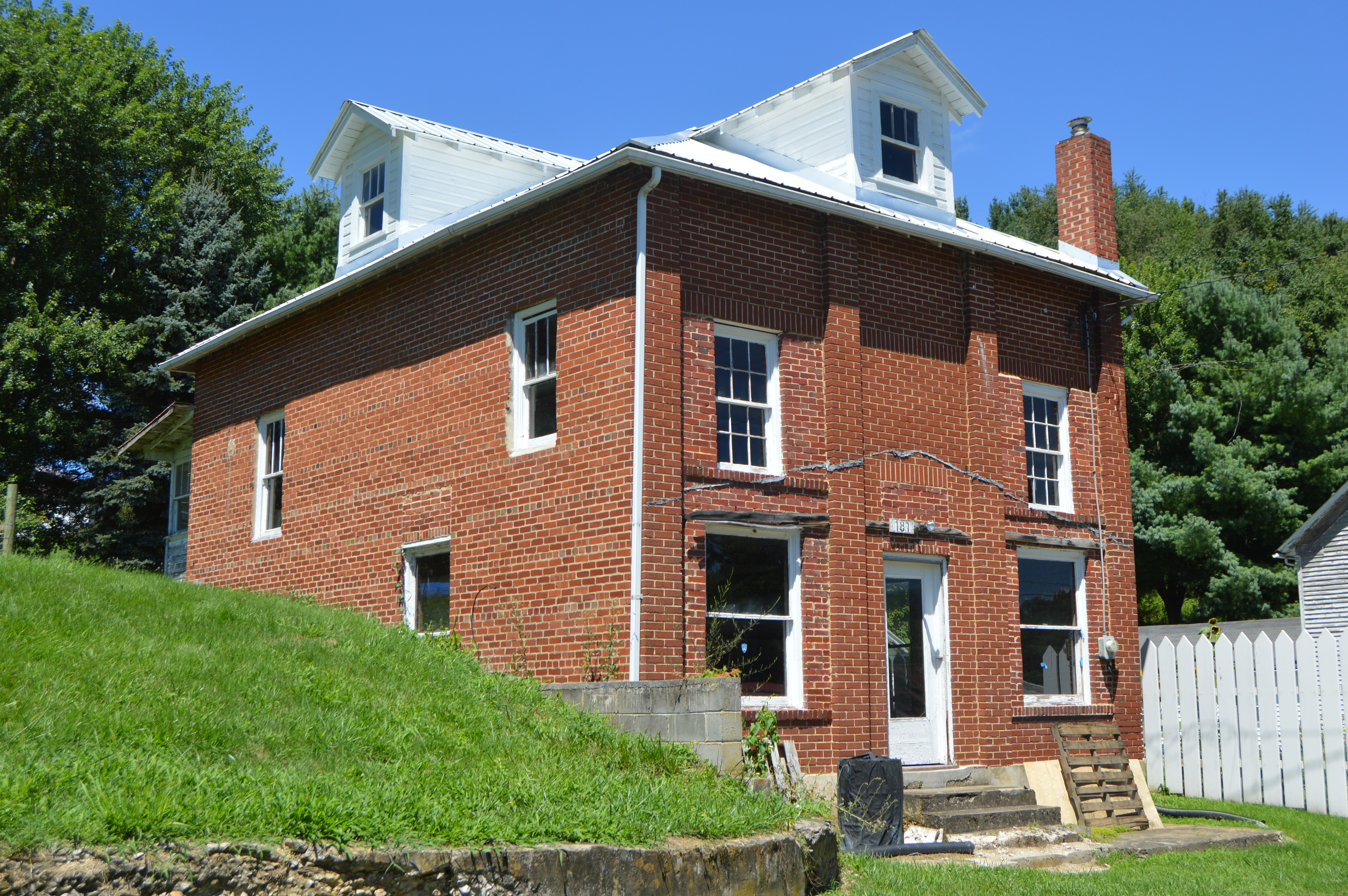 Front and southern side of the People's Bank of Eggleston, located at 181 Village Street in Eggleston, Virginia, United States. Built in 1925, it is listed on the National Register of Historic Places.